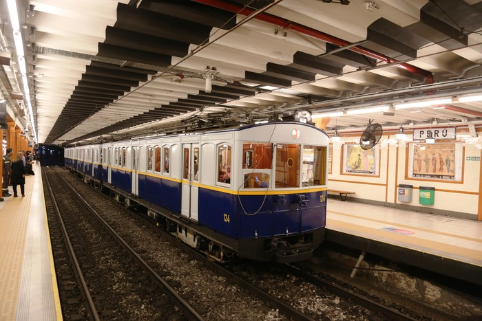 La Brugeoise car from the Buenos Aires metro during its first heritage trip, after its withdrawal from service.